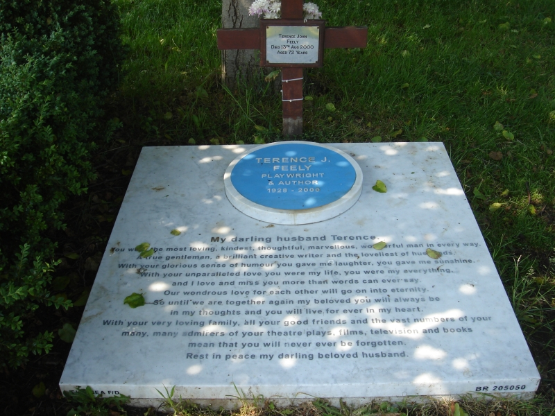 Memorial to Terence Feely, Brompton Cemetery.